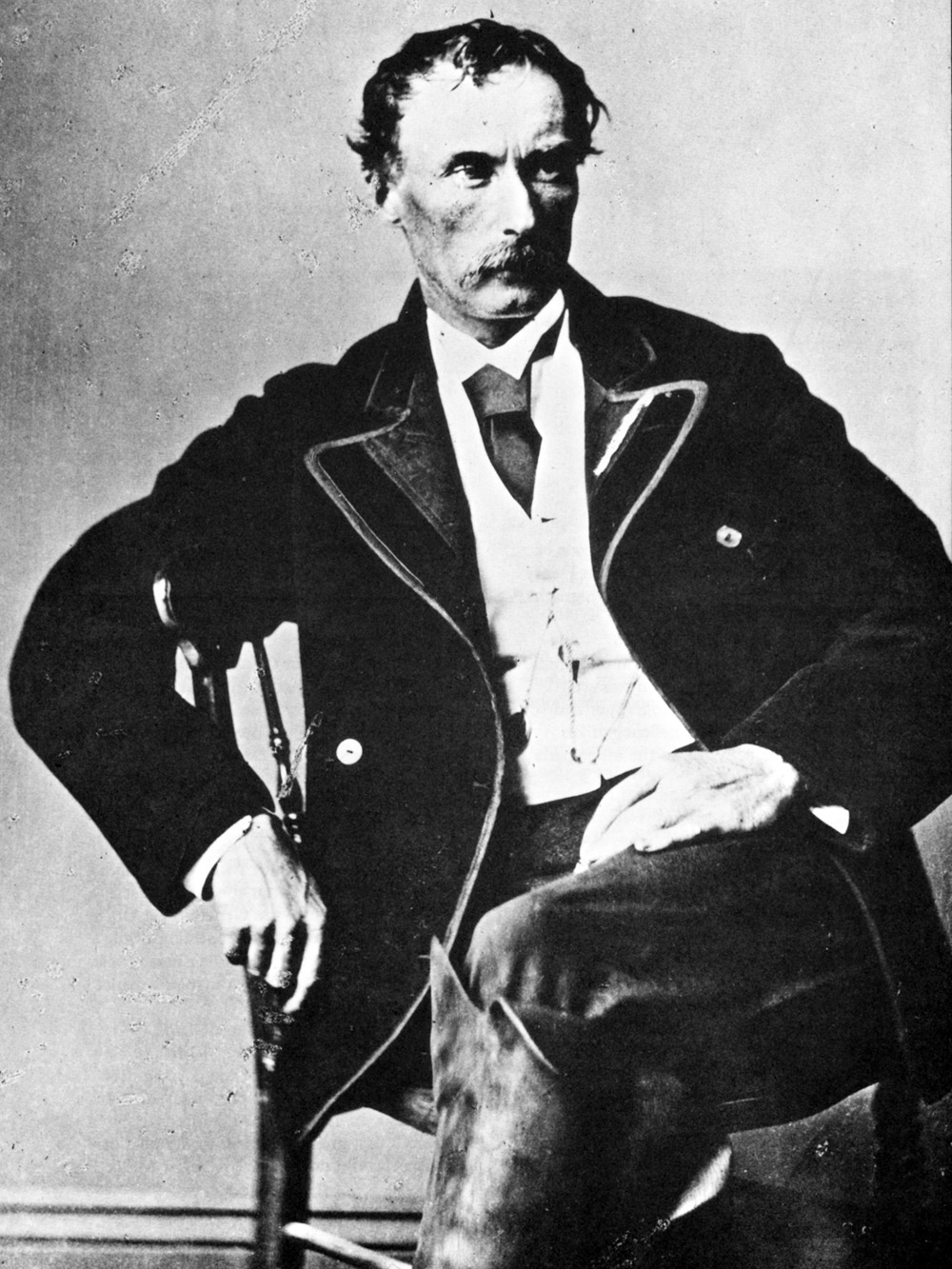 Portrait photograph of Henry Beaufoy Merlin, Hill End, New South wales, 1872